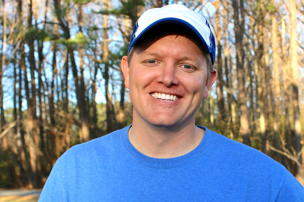 Head shot of Destin Sandlin.